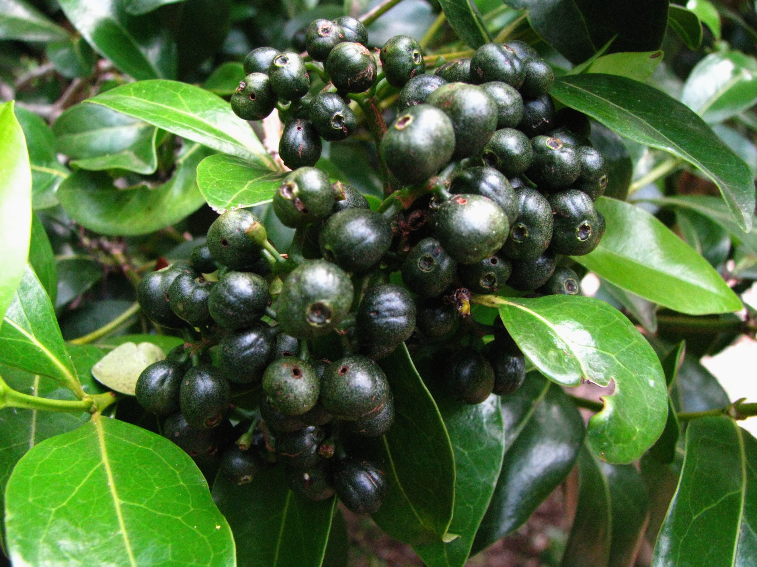 Alaheʻe or Walaheʻe [syn. Canthium odoratum] Rubiaceae Indigenous to the Hawaiian Islands Oʻahu (Cultivated) Reportedly a dark brown or black dye was produced from the leaves of alaheʻe by early Hawaiians. Spears, from 6 to 13 feet long, were fashioned for capturing heʻe (octopus) and were often made from alaheʻe. The hardwood was used for farming tools such as ʻōʻō, fishhooks, shark hooks (makau manō) with bone points, short spears (ʻo), and dip nets for fish and crabs. The wood was also made into adze blades for cutting softer wood such as wiliwili and kukui. Medicinally, the leaves and "the white skin of the stem" are prepared by cooking and the bitter medicine is drunk to cleanse the blood.